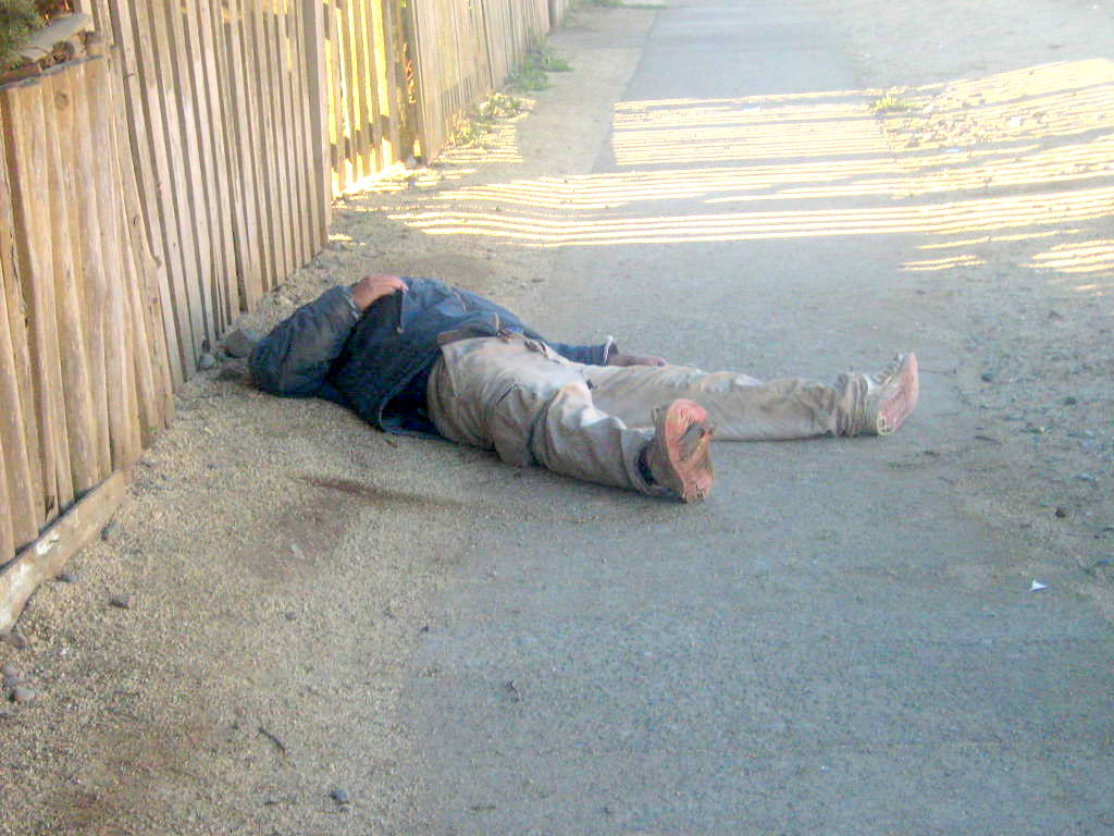 A drunk man in the streets of Pichilemu.